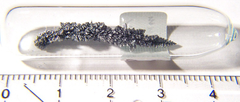 Vanadium 99,9 %, vacuum sublimed dendritc crystal, sealed under argon.